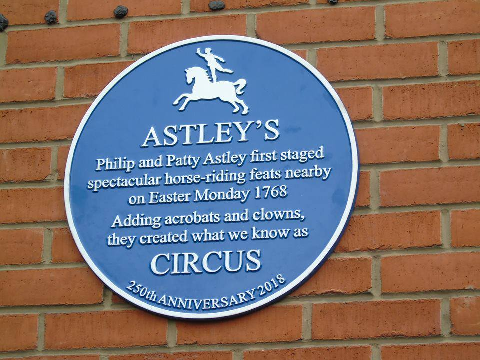 Plaque at Cornwall Rd. Lambeth, to Philip & Patty Astley on the 250th Anniversary of the world's first circus performance